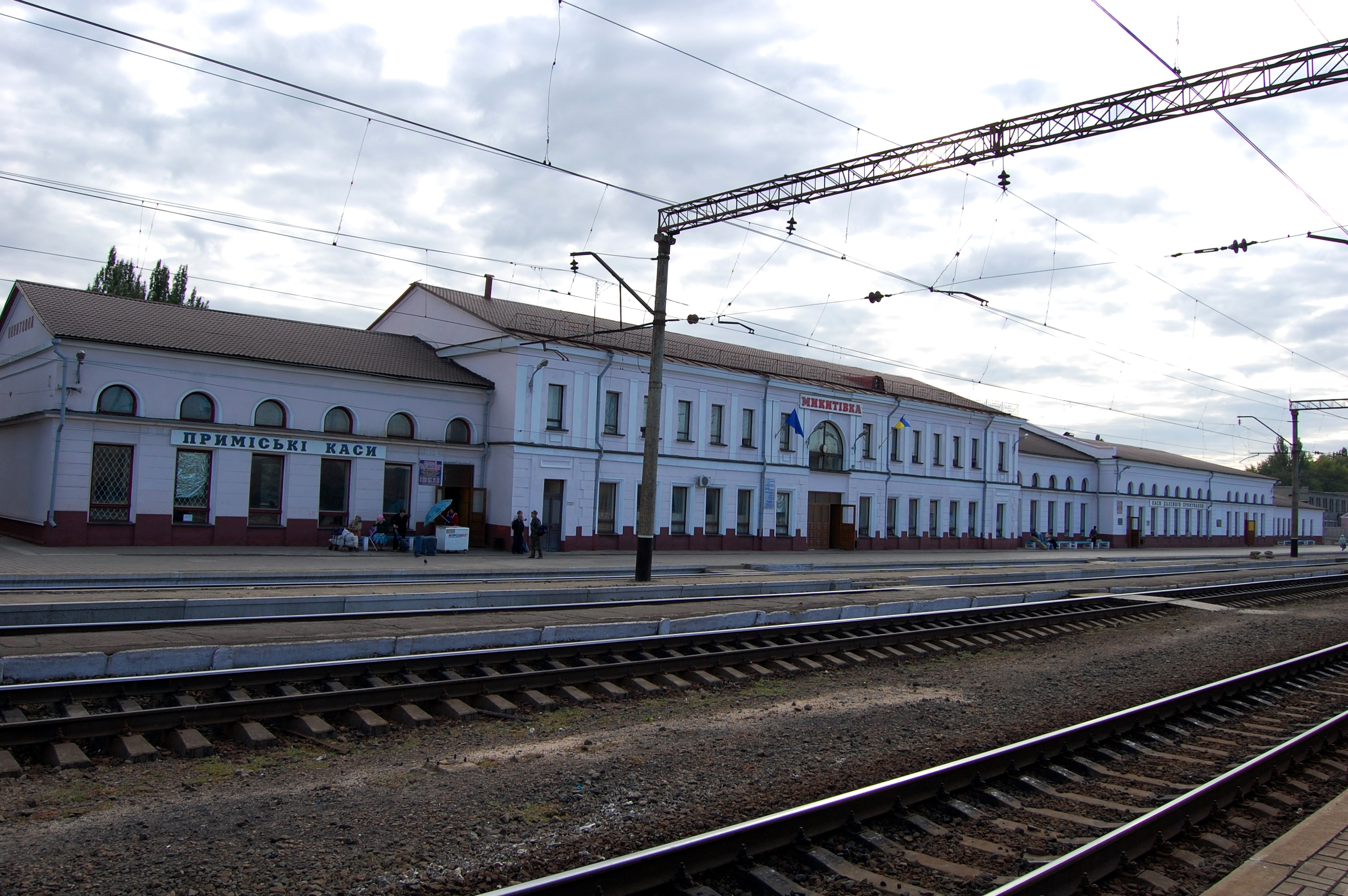 Railway station Mykytivka in Gorlivka town